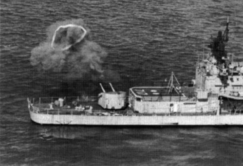 The U.S. Navy Gearing-class destroyer USS Theodore E. Chandler (DD-717), during a fire support mission off Vietnam, in 1966.